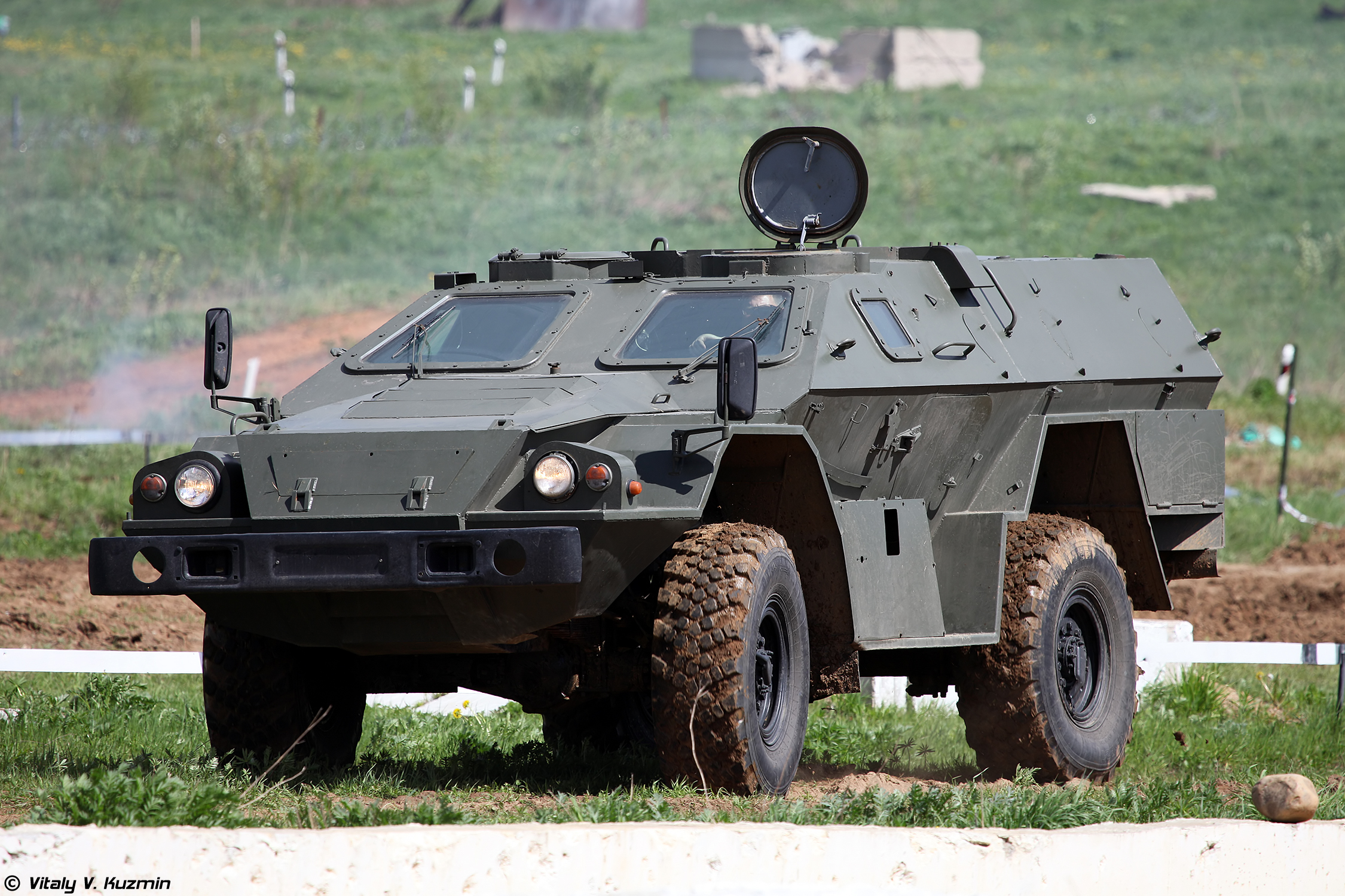 The Day of Advanced Technologies of Law Enforcement 2017